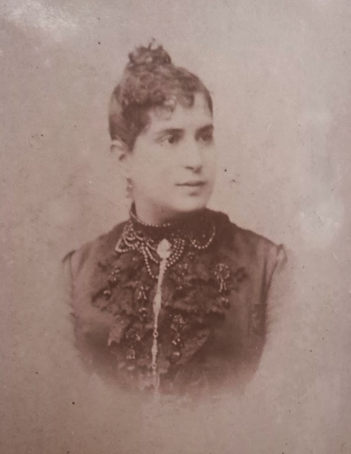 Pilar de Cavia